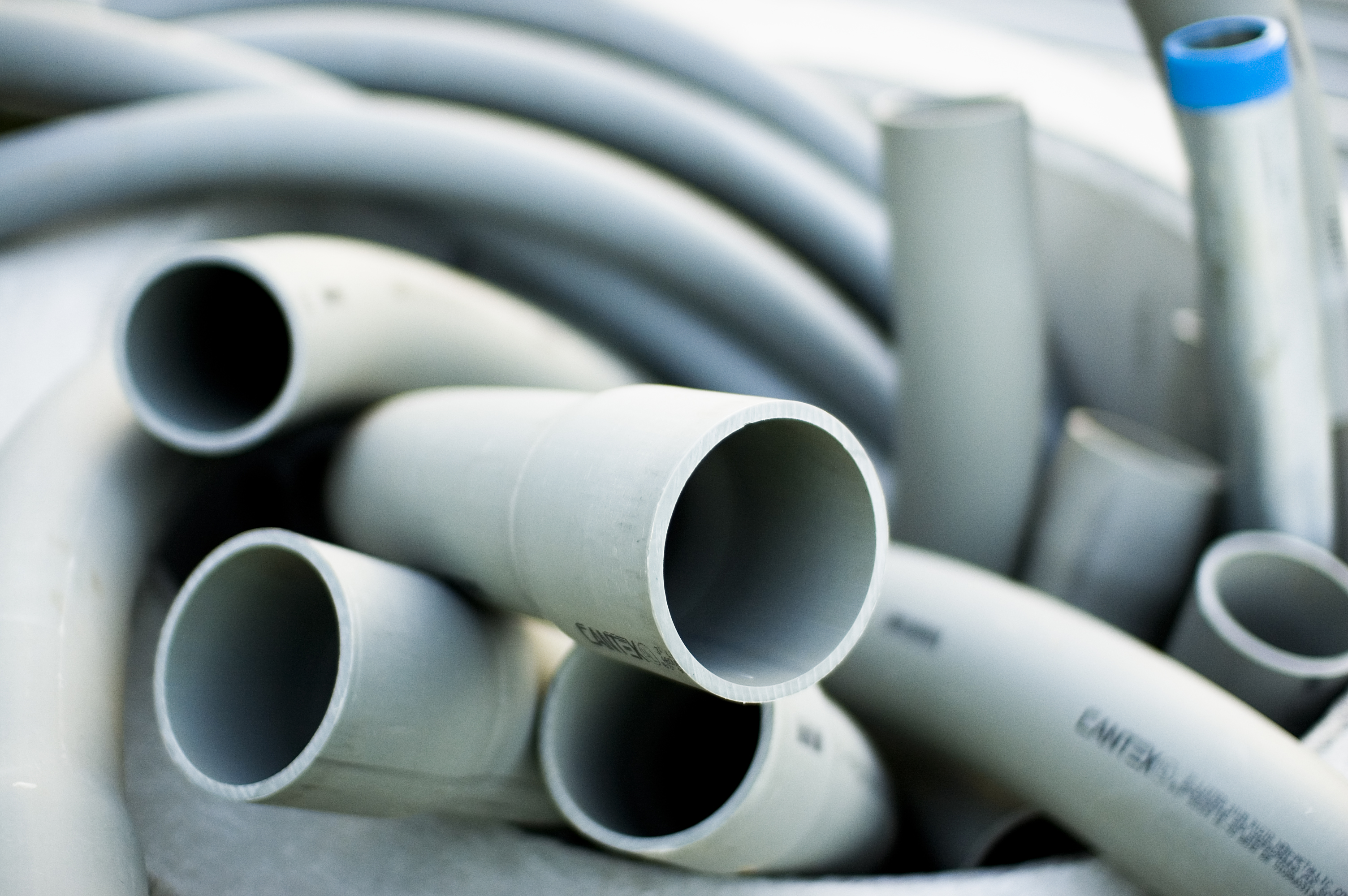 Grey Schedule 40 PVC plastic tubing for use as a conduit for electric wires